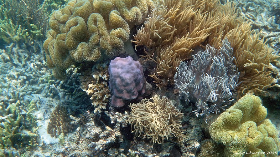 Coral in Ora Beach